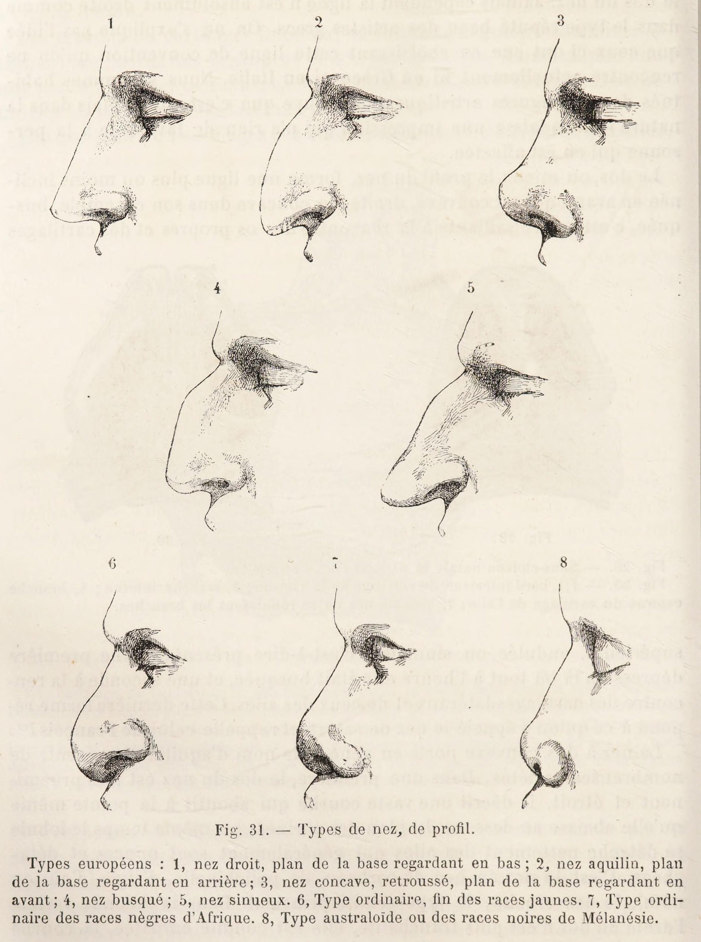 The nasal index: a method of classifying ethnicity based on the ratio of the breadth of a nose to its height. Developed by the French anthropologist/anthropometrist, Paul Topinard (1830-1911). He believed that "narrow" noses (Types 1 - 5) indicated European origin; "medium" noses (Type 6) were the "yellow races"; and "broad" were either African (Type 7) or Melanesian and Australian aboriginal (Type 8).